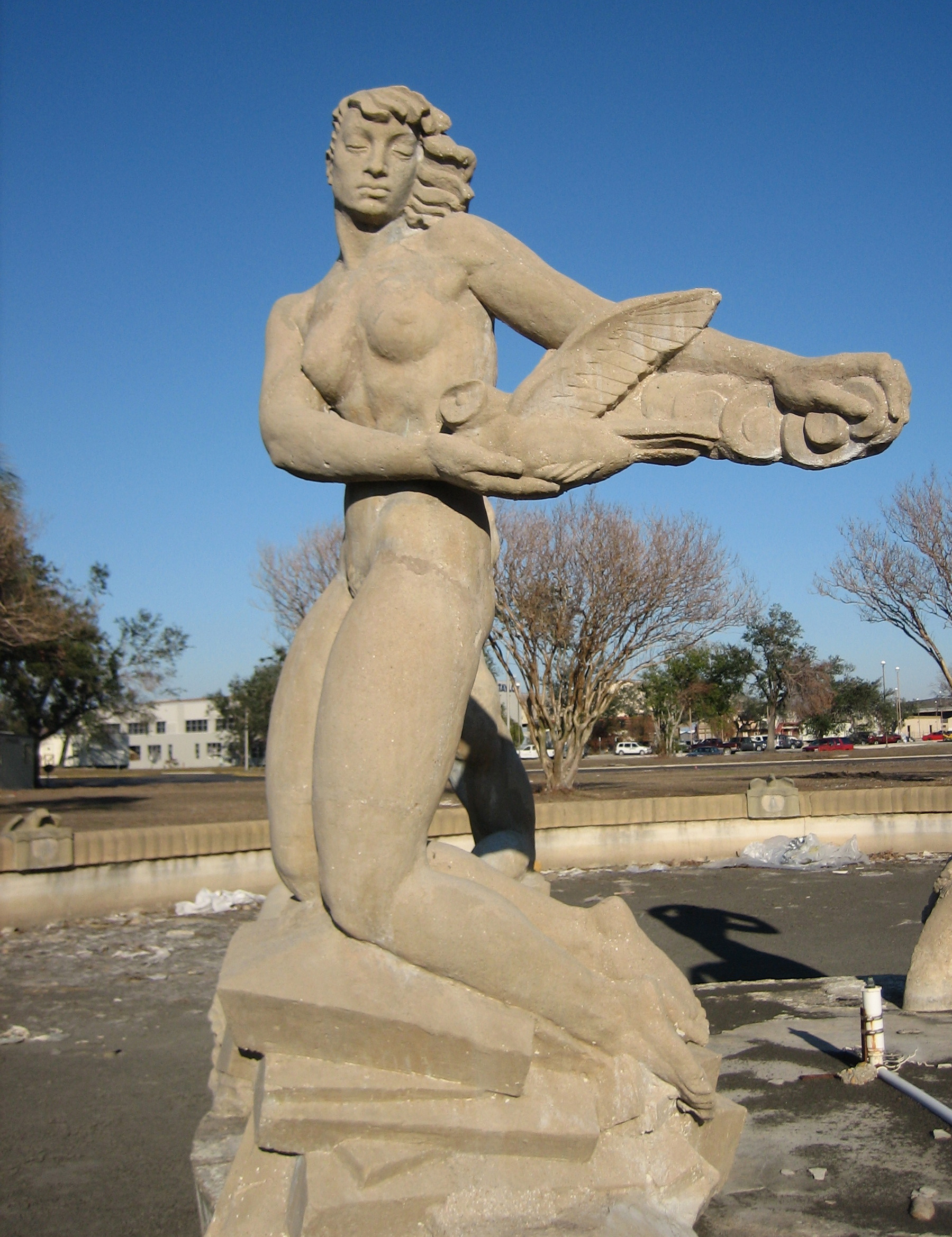 Enrique Alferez 1930s sculpture "Fountain of the Winds", detail, Lakefront Airport, New Orleans. Figure of woman with owl. The fountain is dry and flood silted after Hurricane Katrina.